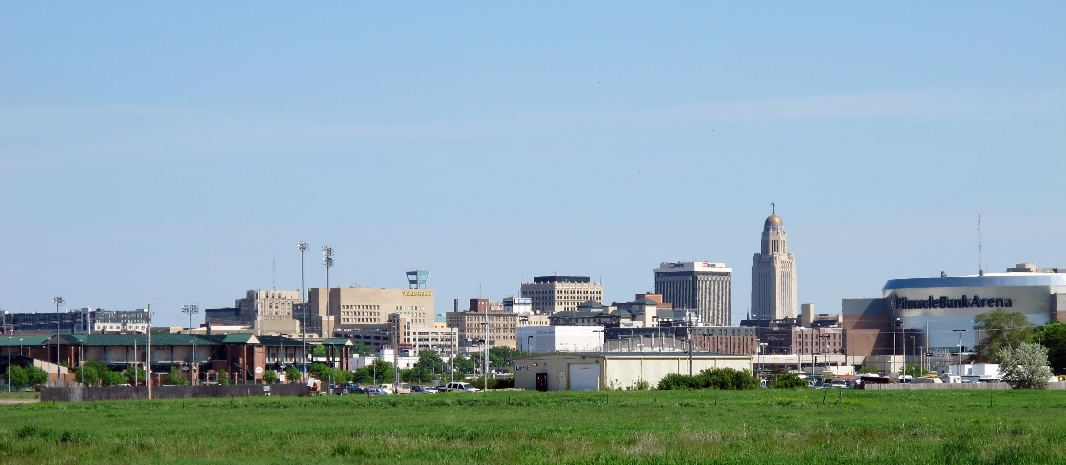 Skyline of downtown Lincoln, Nebraska; as seen from the northwest on 12 May 2015.